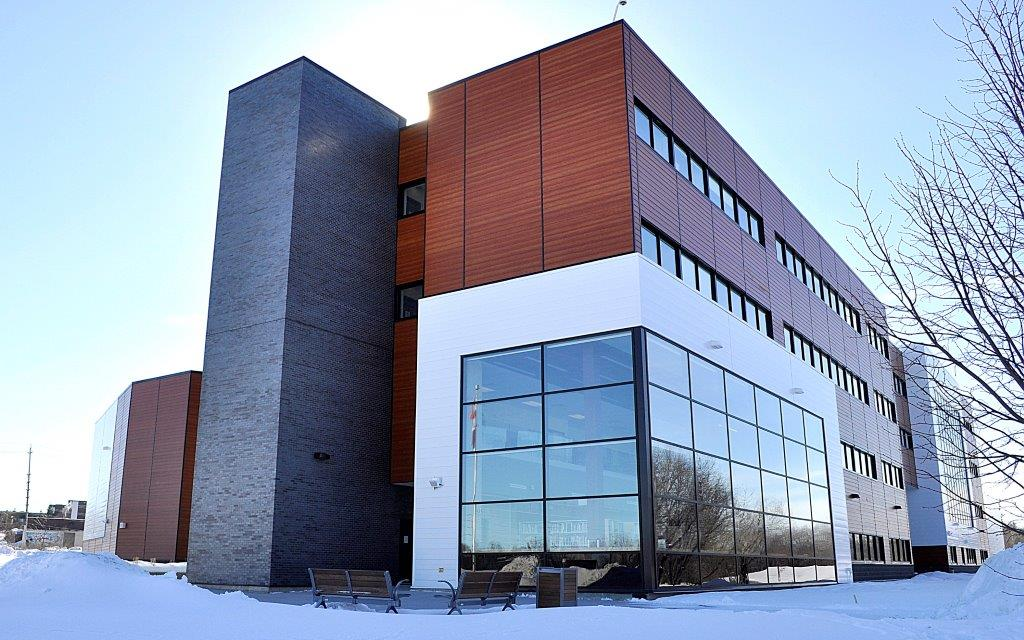 Algonquin College Waterfront Campus- Pembroke, Ontario